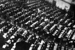 1946 National Assembly China at Nanking